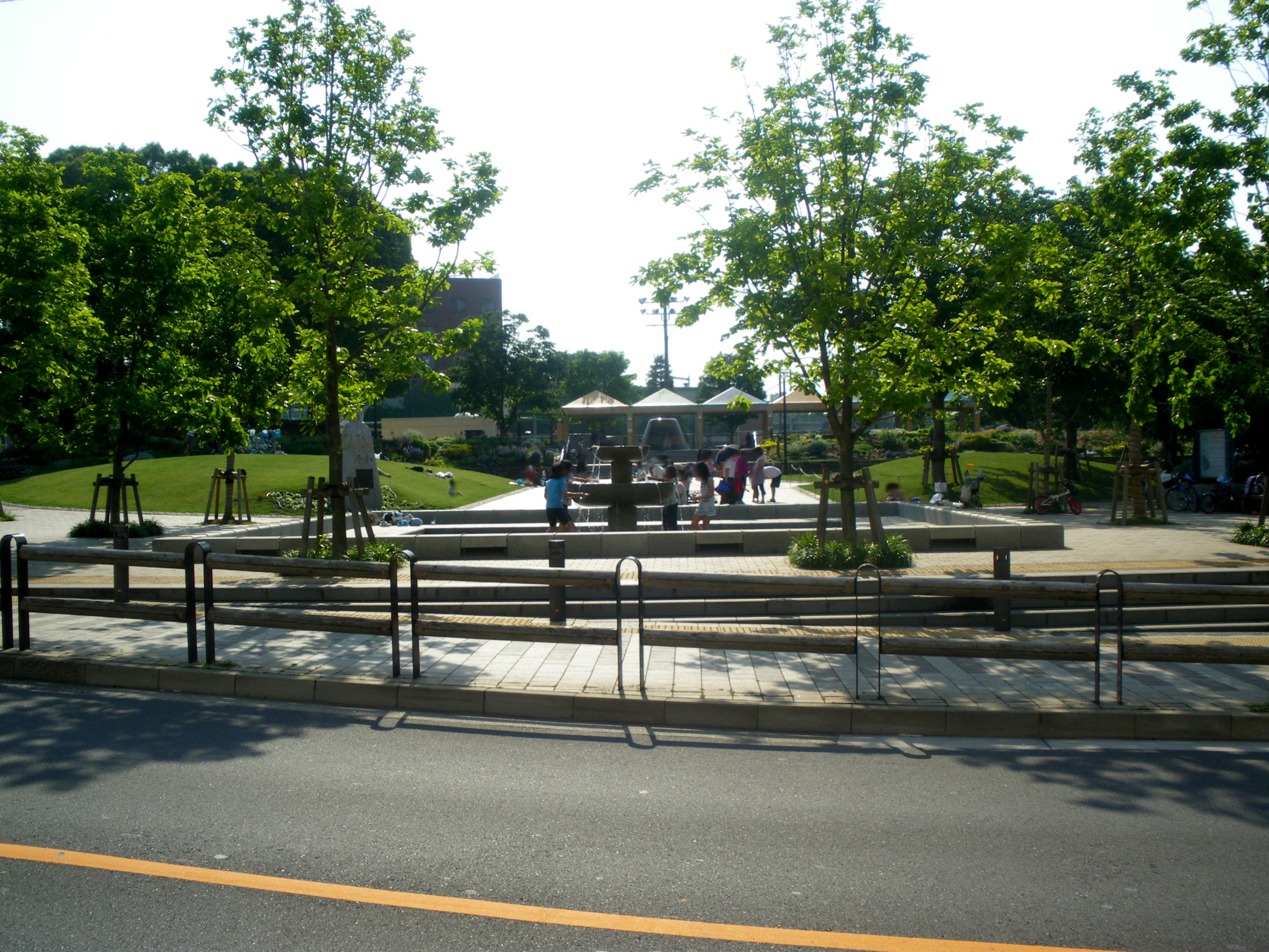 Shinagawa Chuo Park(Nishishinagawa,Shinagawa,Tokyo)